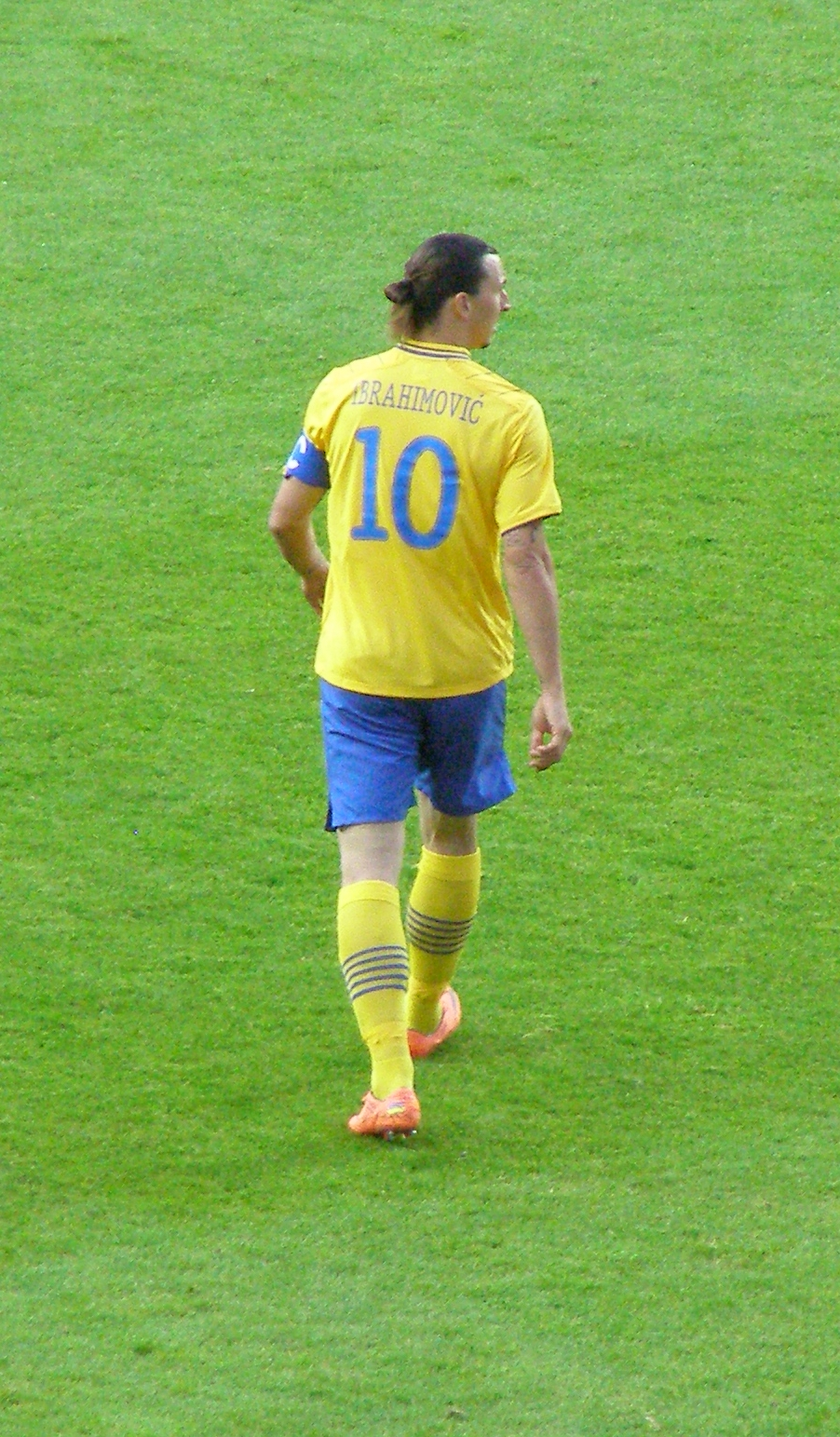 Gothenburg - Gamla Ullevi - Sweden-Iceland friendly - Zlatan Ibrahimović